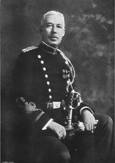 George H. Cameron, Commandant of the United States Army Cavalry School.